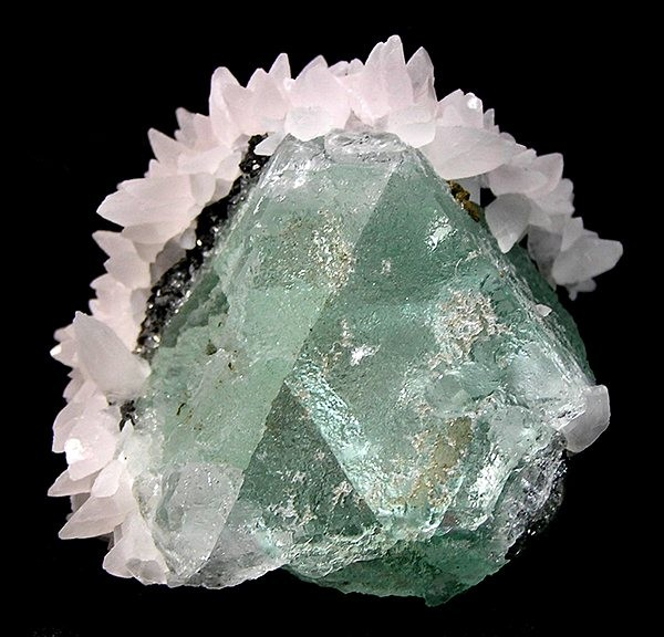 Fluorite, Calcite Locality: Naica Mine, Naica, Municipio de Saucillo, Chihuahua, Mexico (Locality at ) Size: 5.5 x 5.1 x 4.4 cm. From the fluorite collection of Herb Obodda, a striking Naica fluorite not from the recent finds, but from mining in the 1980s there. What makes it so exceptional is the stark white calcite crystals on the back side that wrap around the front to create a pretty "frame" for the fluorite.